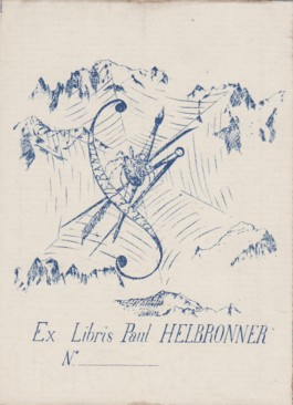 Ex libris found in a book in my collection of the library of Paul Helbronner (1871-1938)